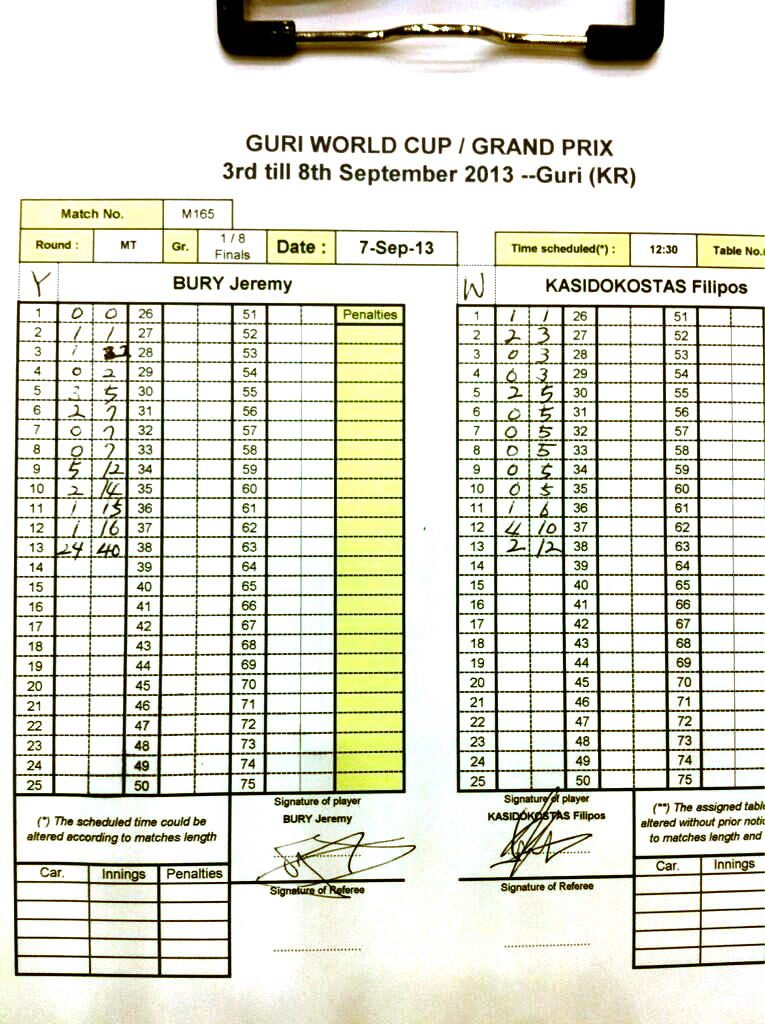 Result sheet of Jérémy Bury's (FRA) worldcup record high-run of 24 points at the 3-cushion World-Cup 2013/2 in Guri vs. Filipos Kasidokostas (GRC) on 7th September 2013.